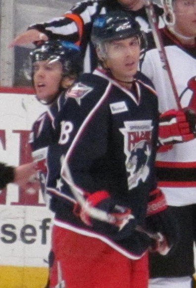 Tomáš Kubalík of the Springfield Falcons during an American Hockey League game (Springfield Falcons @ Albany Devils - Jan 5, 2013)